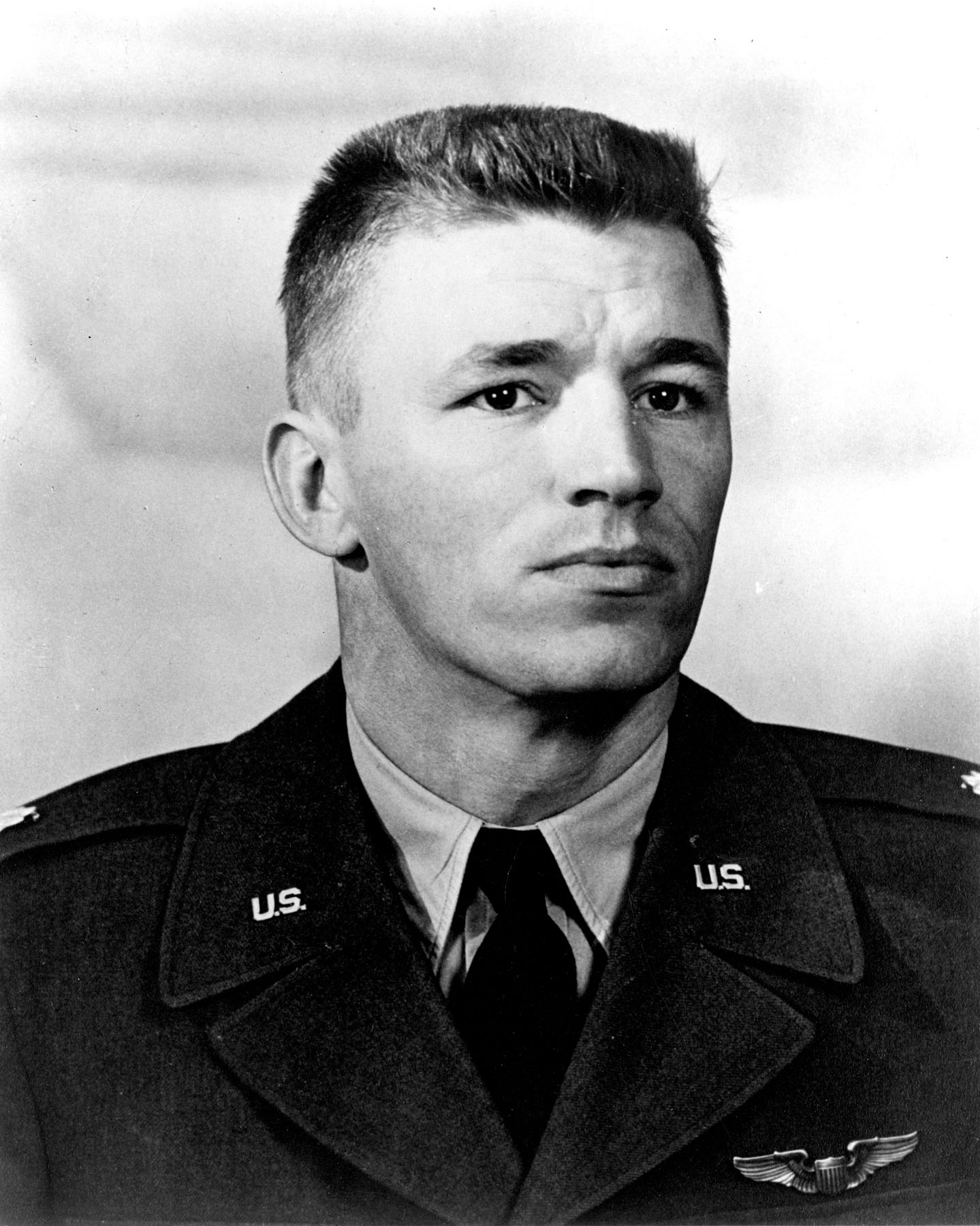 Maj. Charles Joseph Loring Jr., United States Air Force, Korean War Medal of Honor recipient. Went to Europe in 1944 as a fighter pilot with the 36th Fighter Group's 22nd Squadron. Completed 55 combat missions before was shot down and made a prisoner of war. Went to Korea in May 1952 with the 36th and 80th Squadrons, 8th Fighter Bomber Group. During a close air support mission on Nov. 22, 1952, Loring's flight was dive-bombing enemy gun positions. He was hit repeatedly by ground fire during his dive. Instead of withdrawing, Loring aimed his F-80 directly at the gun positions and deliberately crashed into them, destroying them. Loring Air Force Base, Maine, was named in his honor. (National Museum of the USAF)